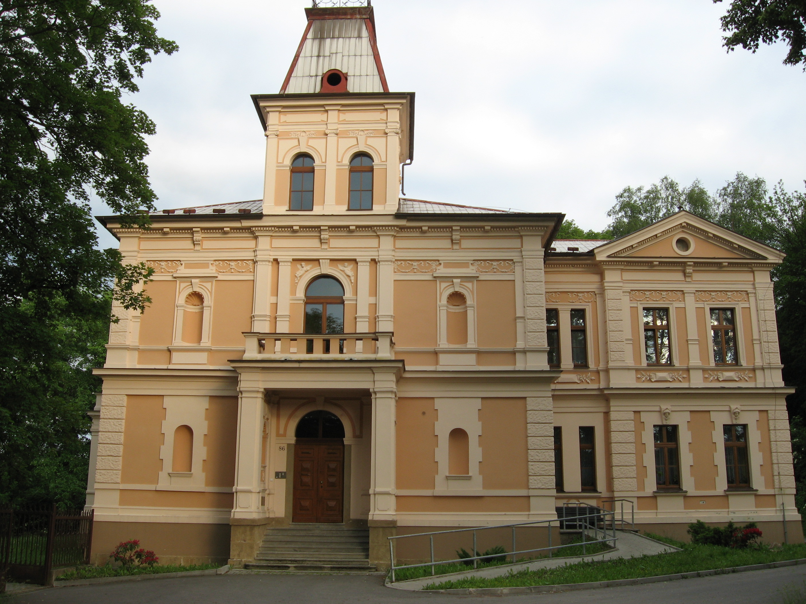 Hophengartner residence at Holoubkov, Pilsener province, CZ